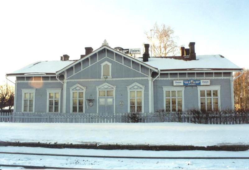 Liminka railway station, Liminka, Finland.